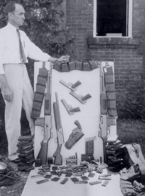 Snapshot from unknown bystander of Barrow Gang guns after ambush, 5/23/34